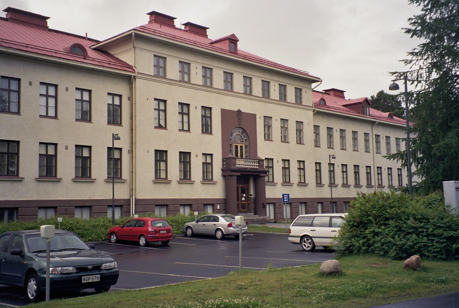 One of the buildings of the former Oulunsuu mental hospital in Peltola, Oulu, Finland.